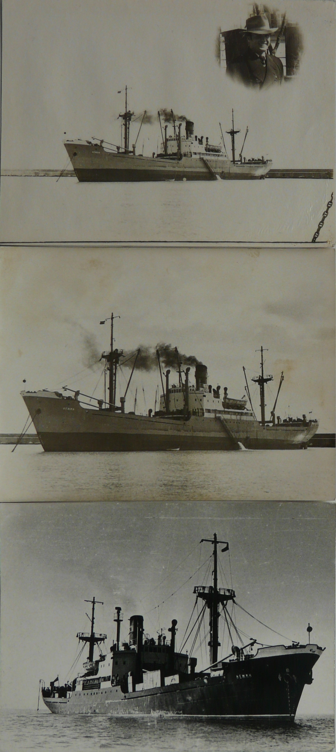 General cargo ship Nezhin as Russian Нежин (1954–1978) was built in GDR and worked in Black Sea Shipping Co. and later in Azov Shipping Co. The name of this vessel was taken for another vessel in Soviet Union movie "Pirates of the 20th Century".